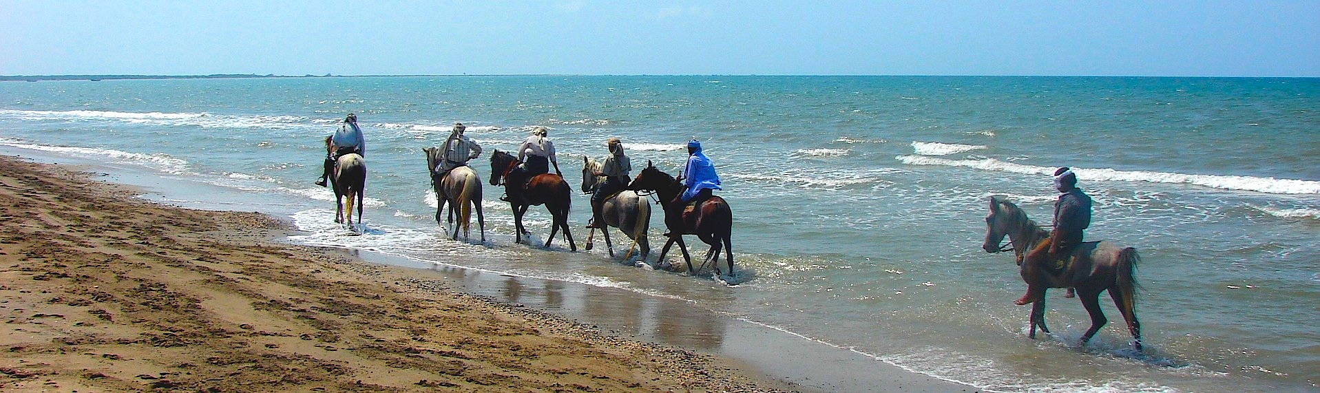 Horses on the Red Sea